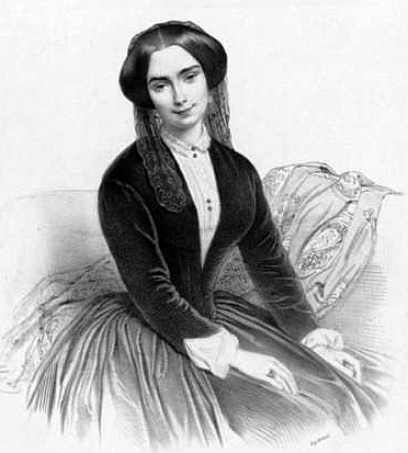 French opera singer Delphine Ugalde (1829-1910) by Marie-Alexandre Alophe (1812-1883).